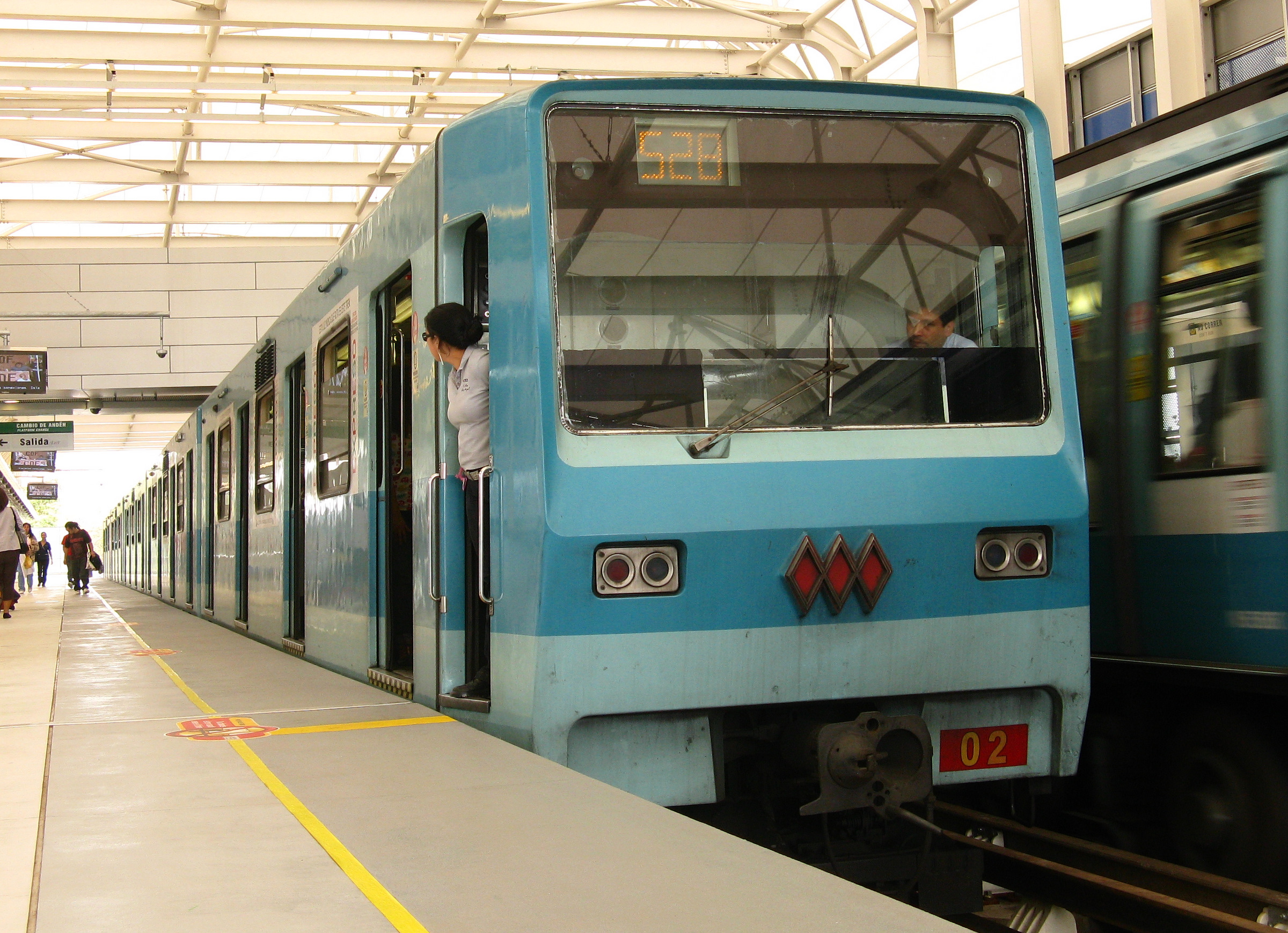 NS-74 train with numeration 3002 in the new station Monte Tabor, Line 5 of Metro de Santiago